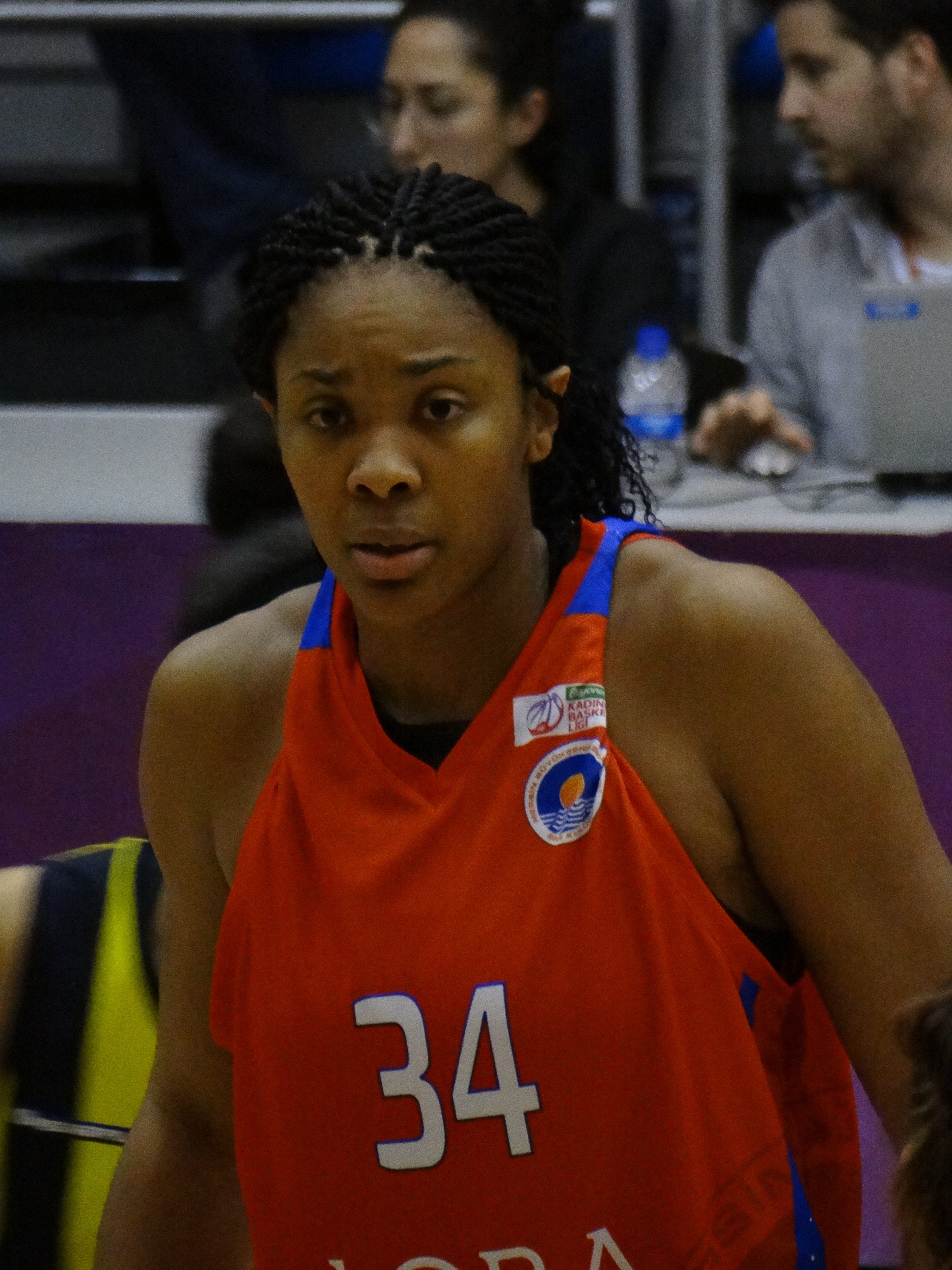 Krystal Thomas Fenerbahçe Women's Basketball vs Mersin Büyükşehir Belediyesi (women's basketball) TWBL 20180121